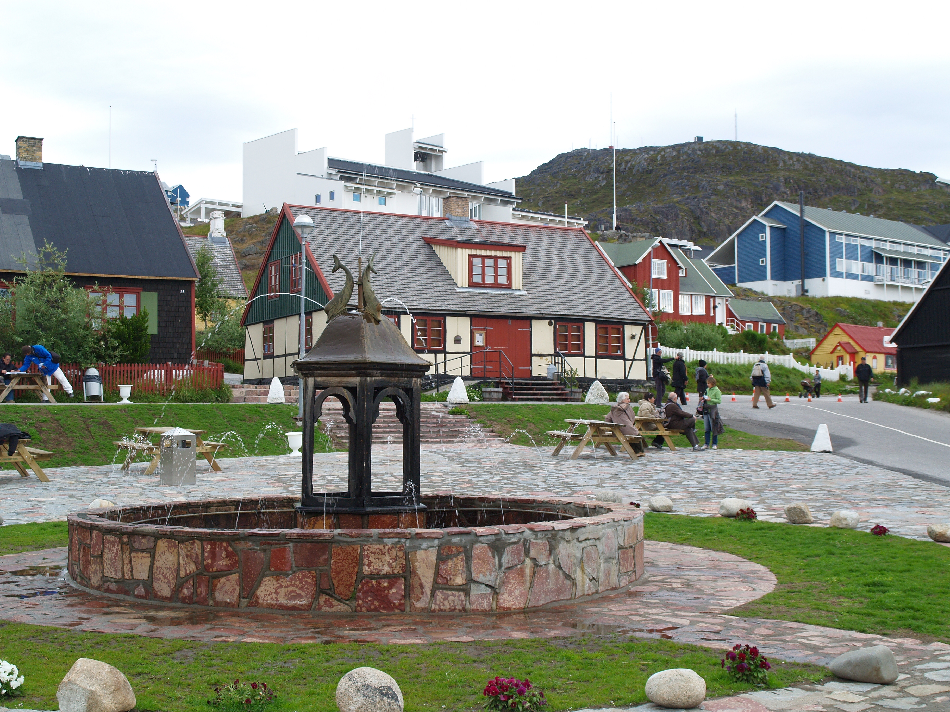 A fountain in Qaqortoq